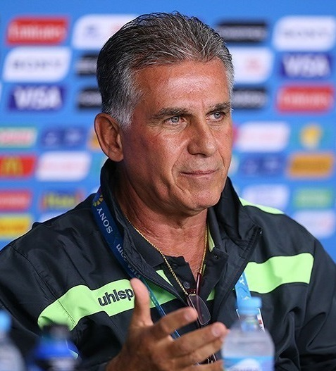 Iran national football team manager Carlos Queiroz in press conference before Nigeria match, 2014 FIFA World Cup